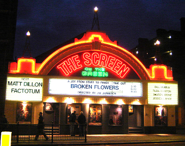 The Screen On The Green cinema, Upper Street, Islington, London. 5 November 2005. Photographer: Fin Fahey.